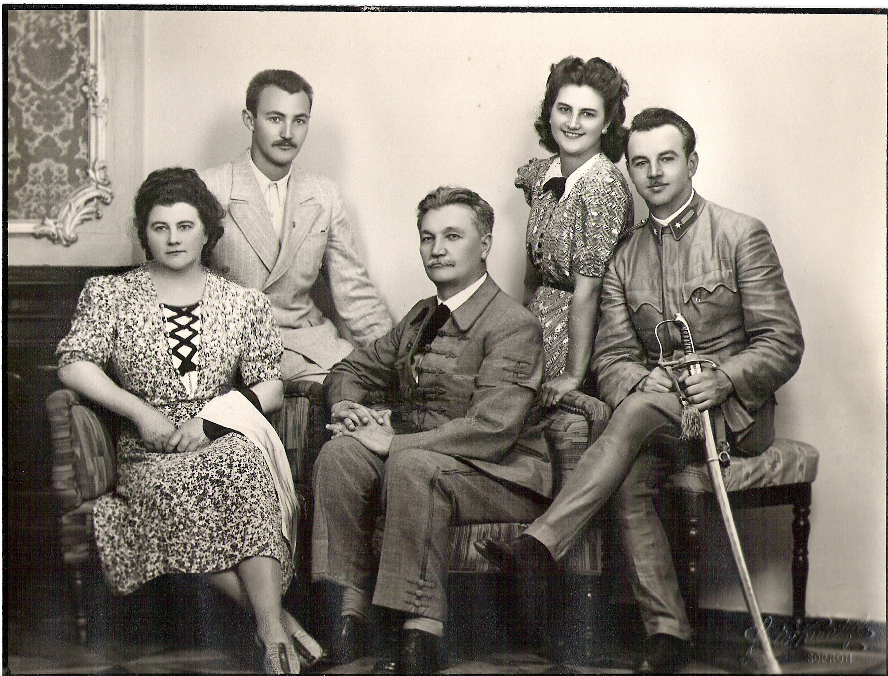 Dorosmai Imre (bal hátul) és családja Sopron, 1942